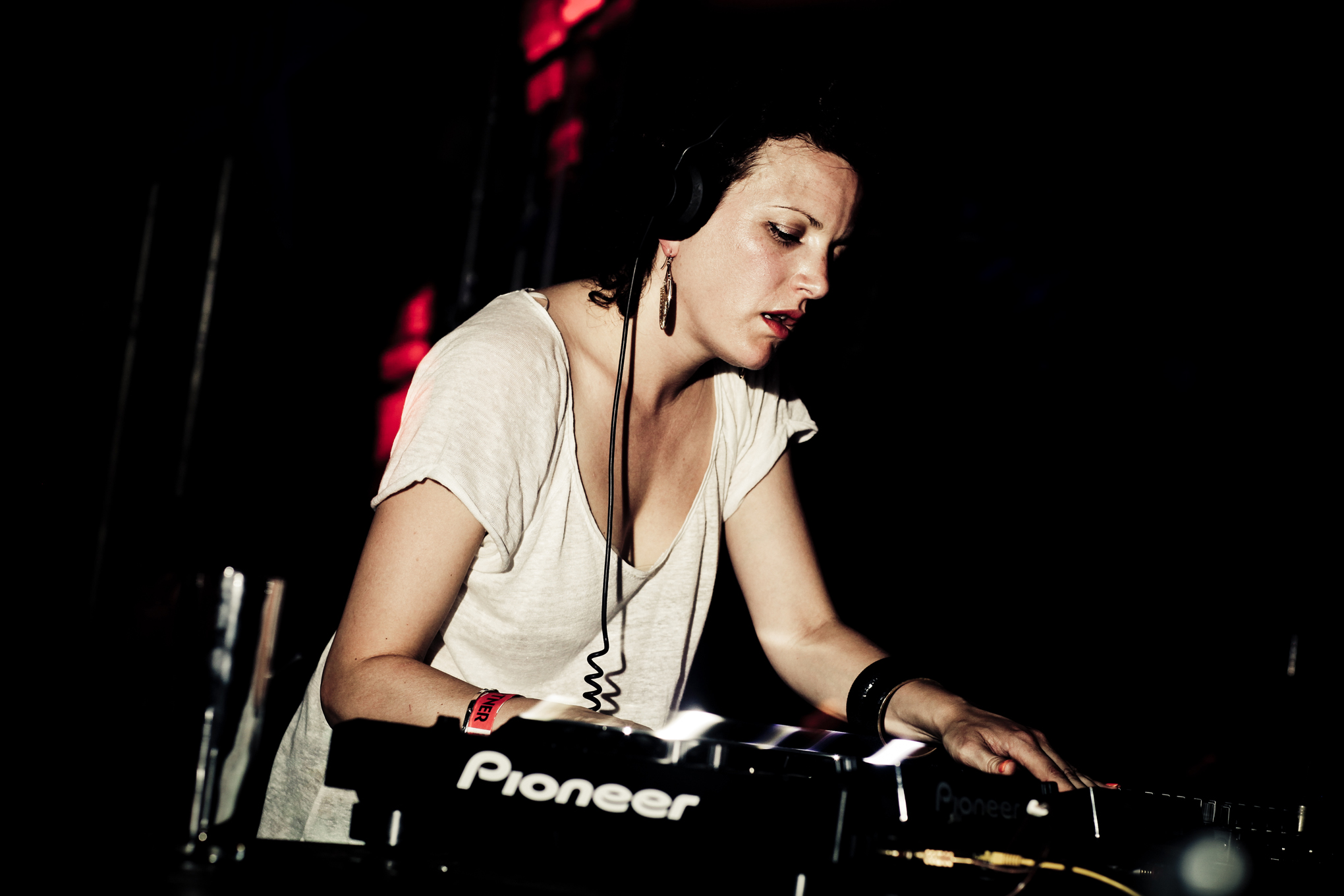 19.06.12 - Together. More pics at